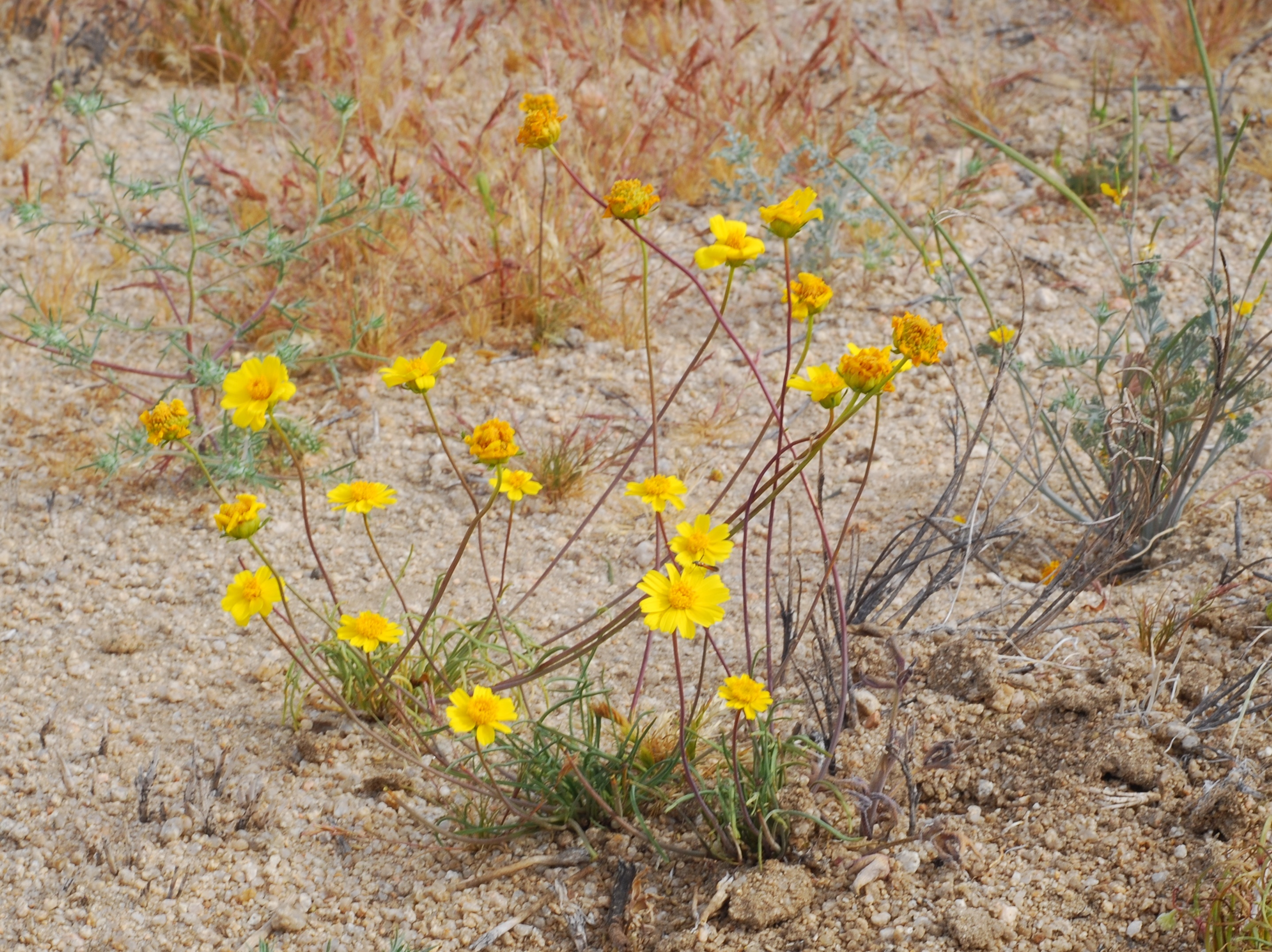 Flowering plants of Joshua Tree National Park: tickseed (Coreopsis californica).